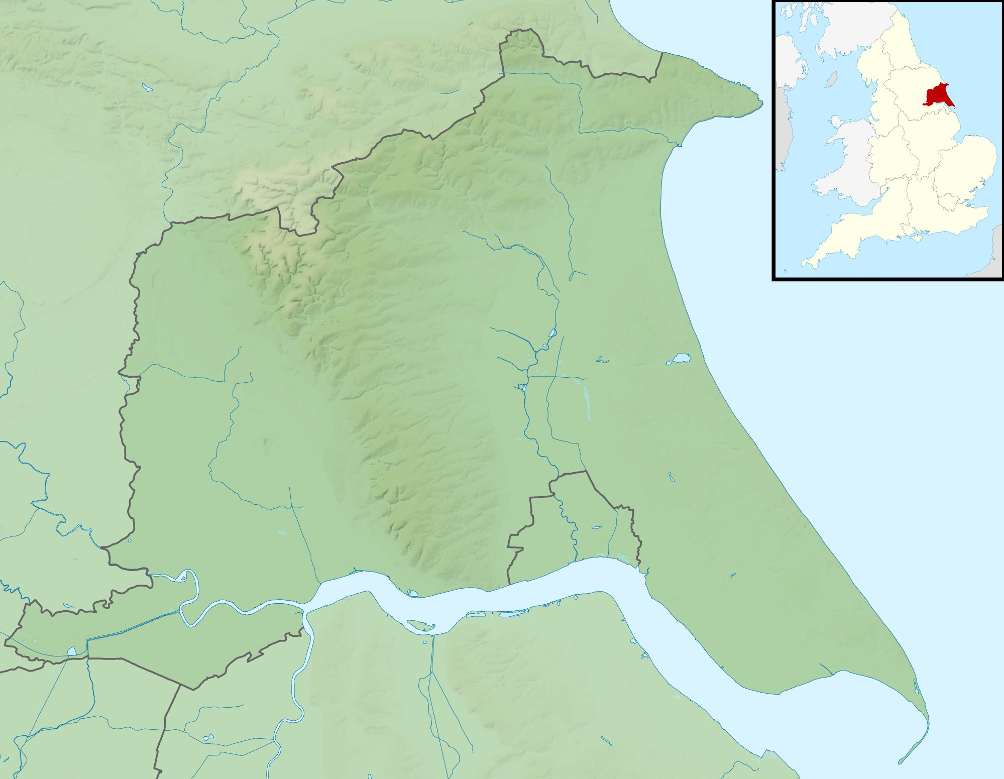 Relief map of the East Riding of Yorkshire, UK. Equirectangular map projection on WGS 84 datum, with N/S stretched 165% Geographic limits: West: 1.11W East: 0.25E North: 54.20N South: 53.56N